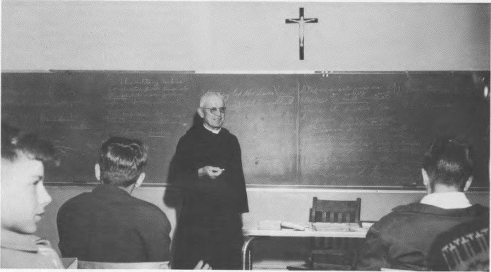 Rev. John Cherf, 90 years old, gives a lecture to his Latin class at Benet Academy in Lisle, Illinois, United States.